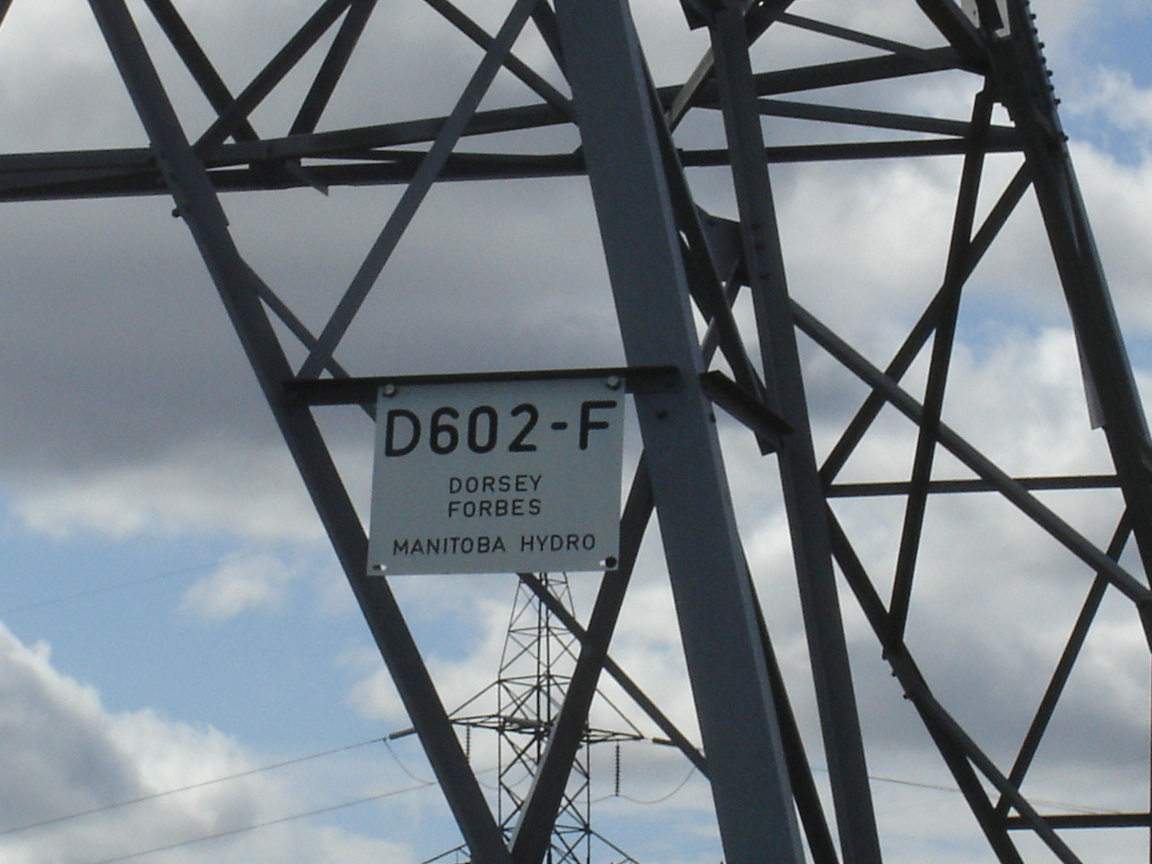 Typical Pylon Identification Tag of Manitoba Hydro in Canada. Image is of Pylon "D602-F Dorsey Forbes", a HVDC anchor pylon at Dorsey Converter Station near Rosser.